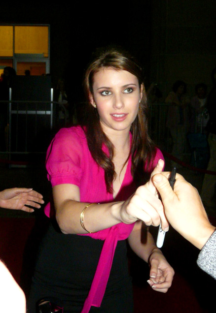 Teen Star Emma Roberts Signs autographs for the fans outside of Ryerson University Theater before the TIFF 08 Premiere of Lymelife Check out more great Photos and Videos at